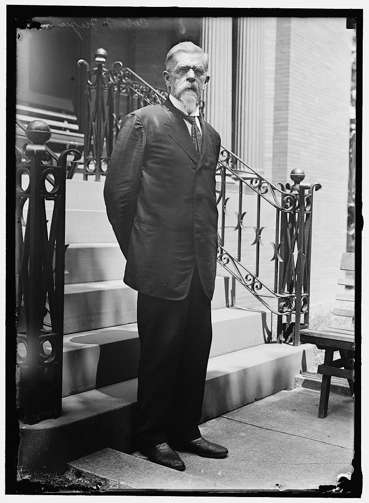 Frederick Füger, L.-Col, USA., Ret., in 1913. Harris & Ewing Collection, Library of Congress Prints and Photographs Division